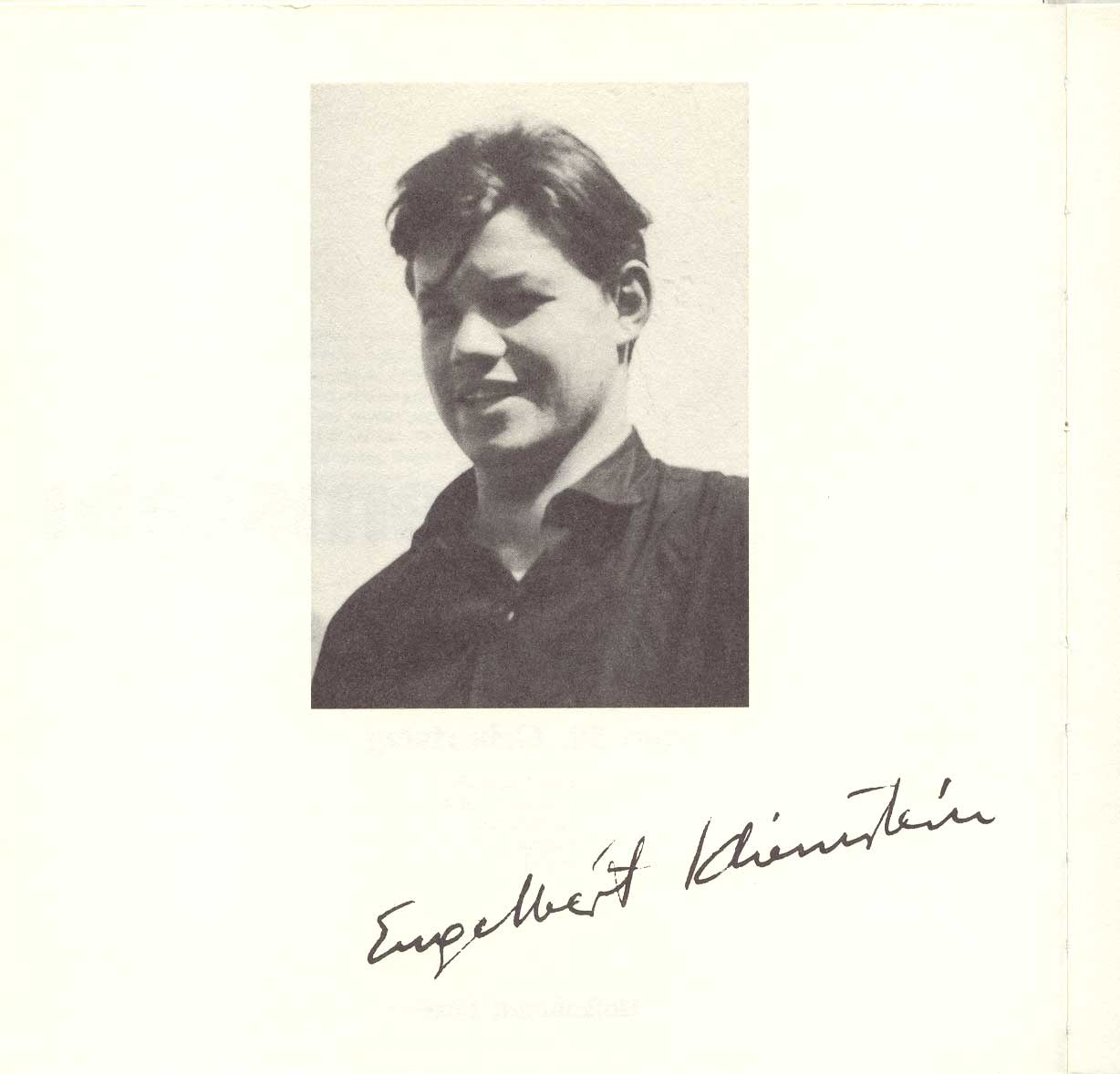 The picture shows the artist Engelbert Kliemstein, including his signature